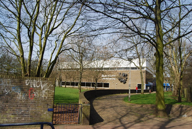 The Black Lion Leisure Centre, Mill Rd